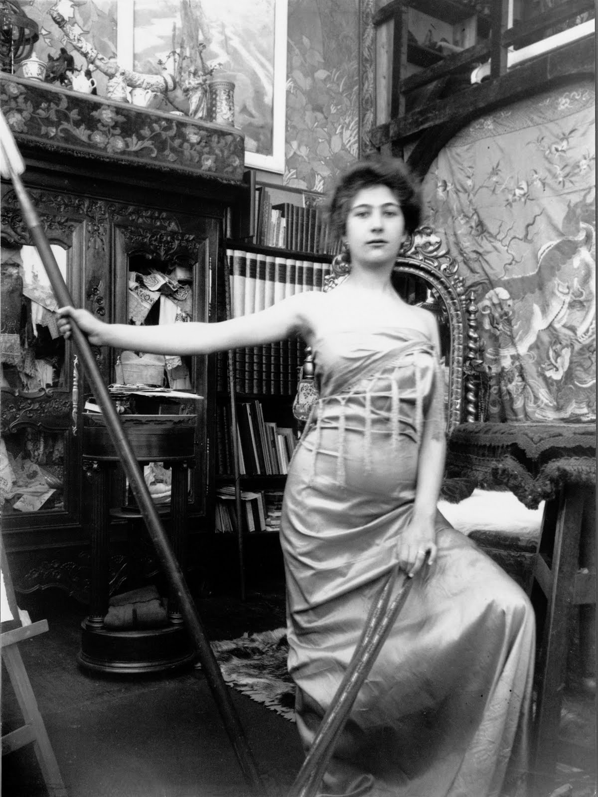 Fotografie Alfonse Muchy Alfons Mucha model model posing in muchas studio Paris